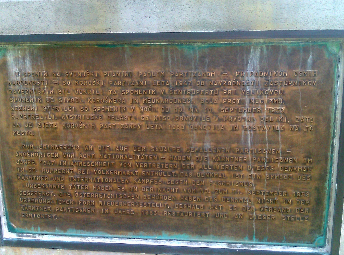 Commemorative plaque at Peršman Memorial in Carinthia